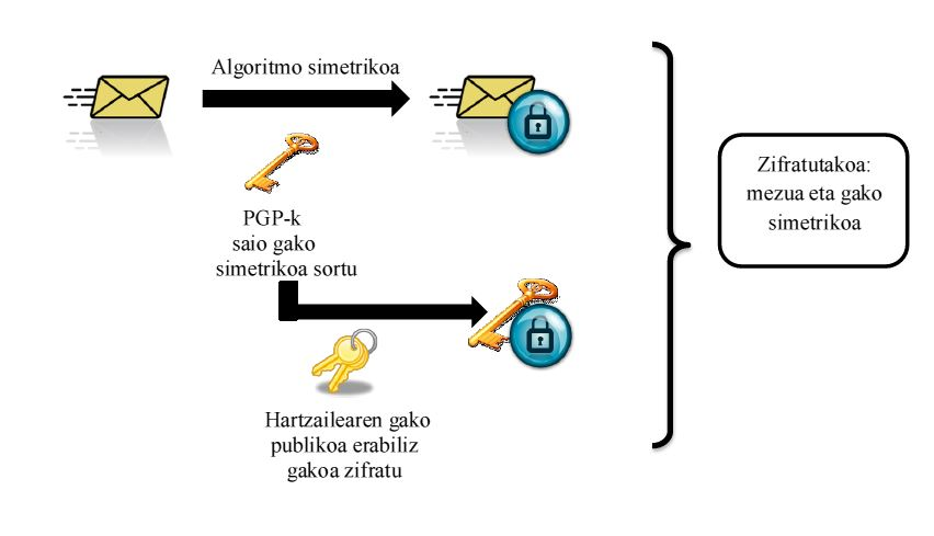 PGP Zifratzea